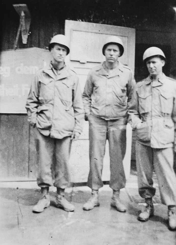 Three American soldiers from the 6th Armored Division pose in front of a building in the Buchenwald concentration camp. Pictured in the center is Sgt. Ezra Underhill. Ezra Underhill was a sergeant with the 6th Armored Division of the United States Army. Correction--Ezra Underhill is standing on the right, not in the middle--We would appreciate correction. Jean Underhill, wife